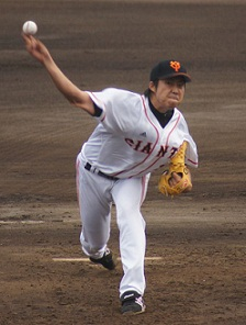 Shun Tono, pitcher of the Yomiuri Giants, at Yomiuri Giants Stadium.